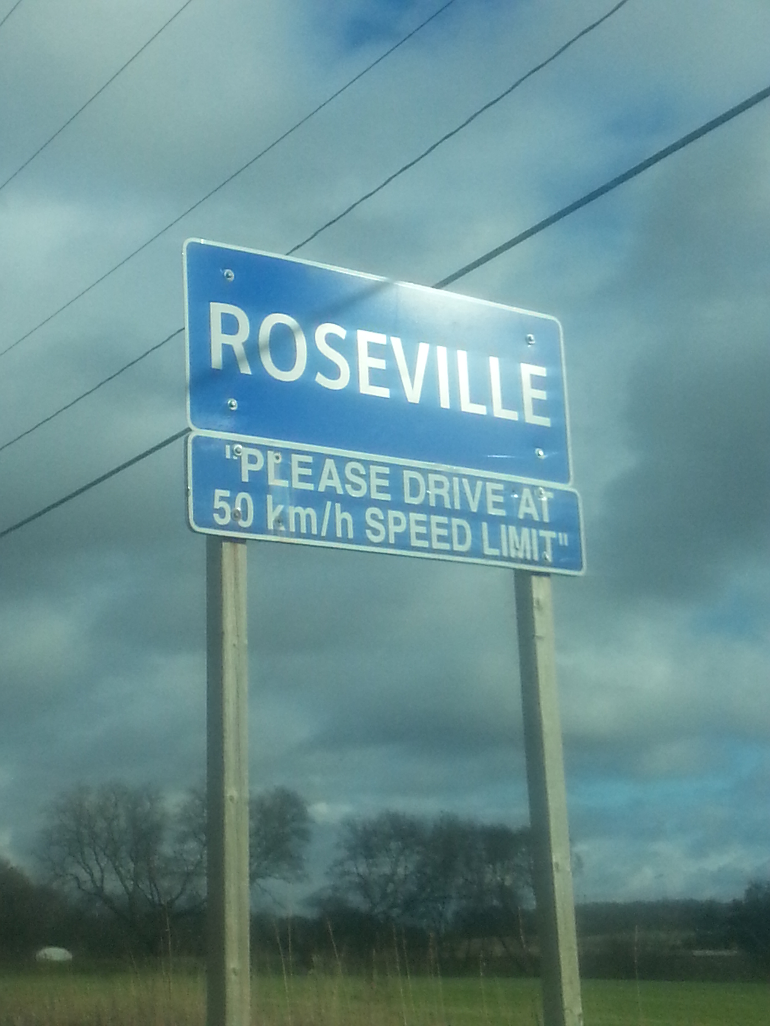 Town sign in Roseville, Ontario...outside of Waterloo.